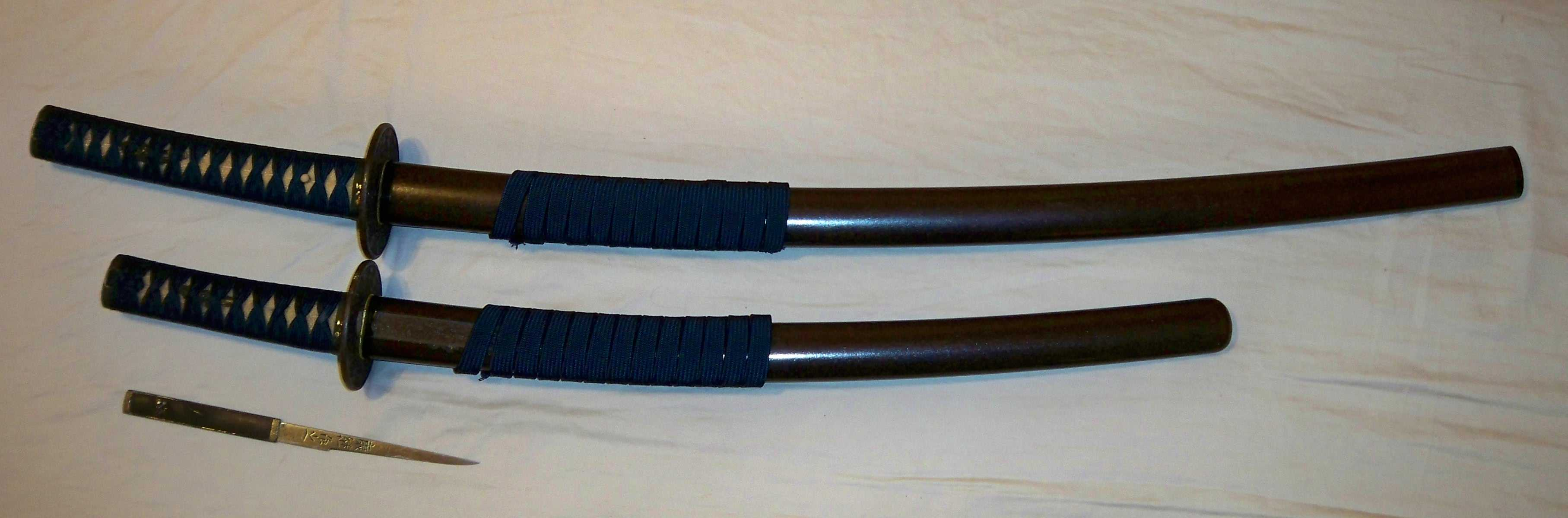 Antique Japanese (samurai) daisho katana and wakizashi koshirae.